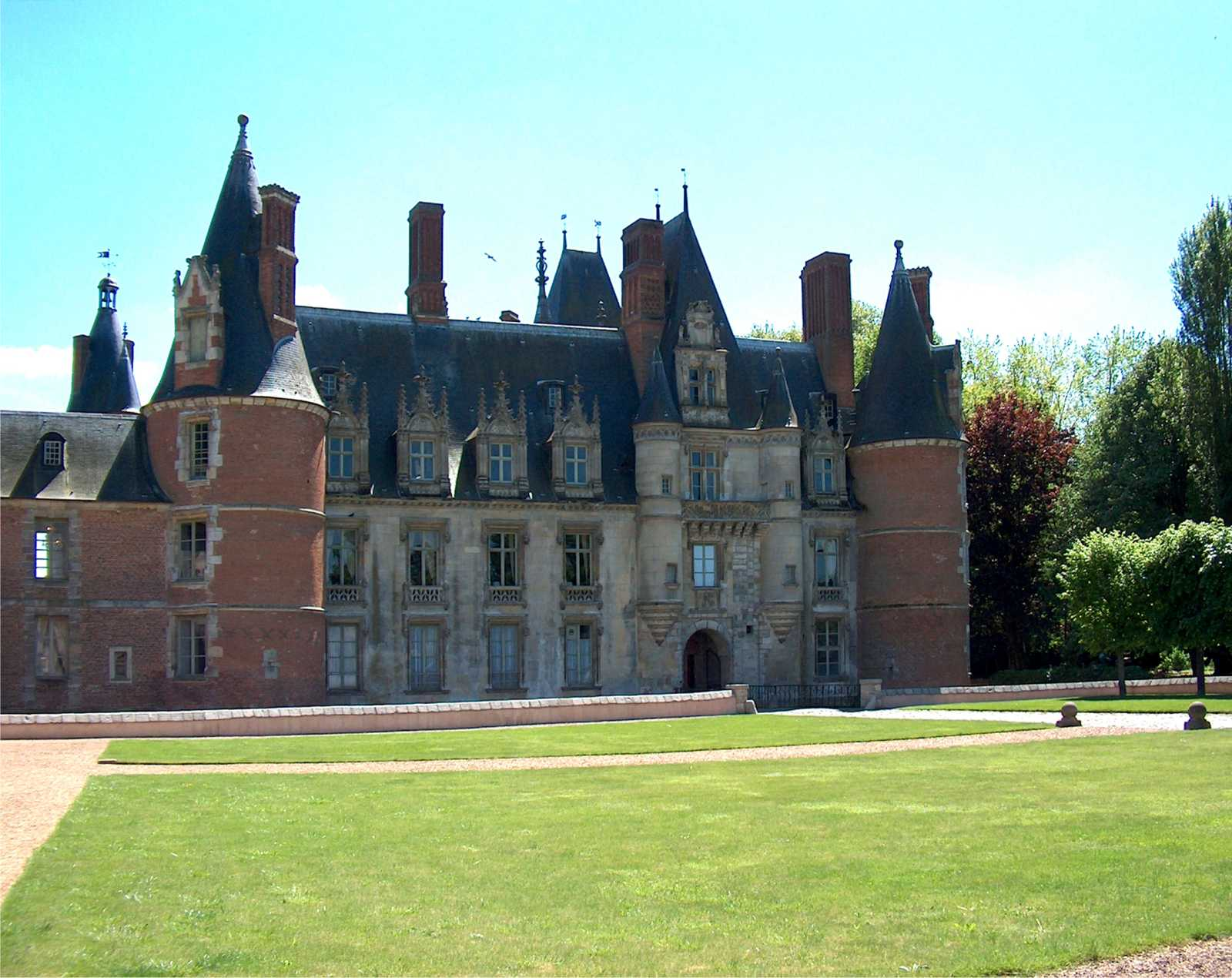 Château de Maintenon, northern aspect